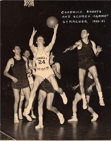 Roger W. Chadwick shoots and scores against Syracuse at Barton Hall, Cornell University, Ithaca, New York.